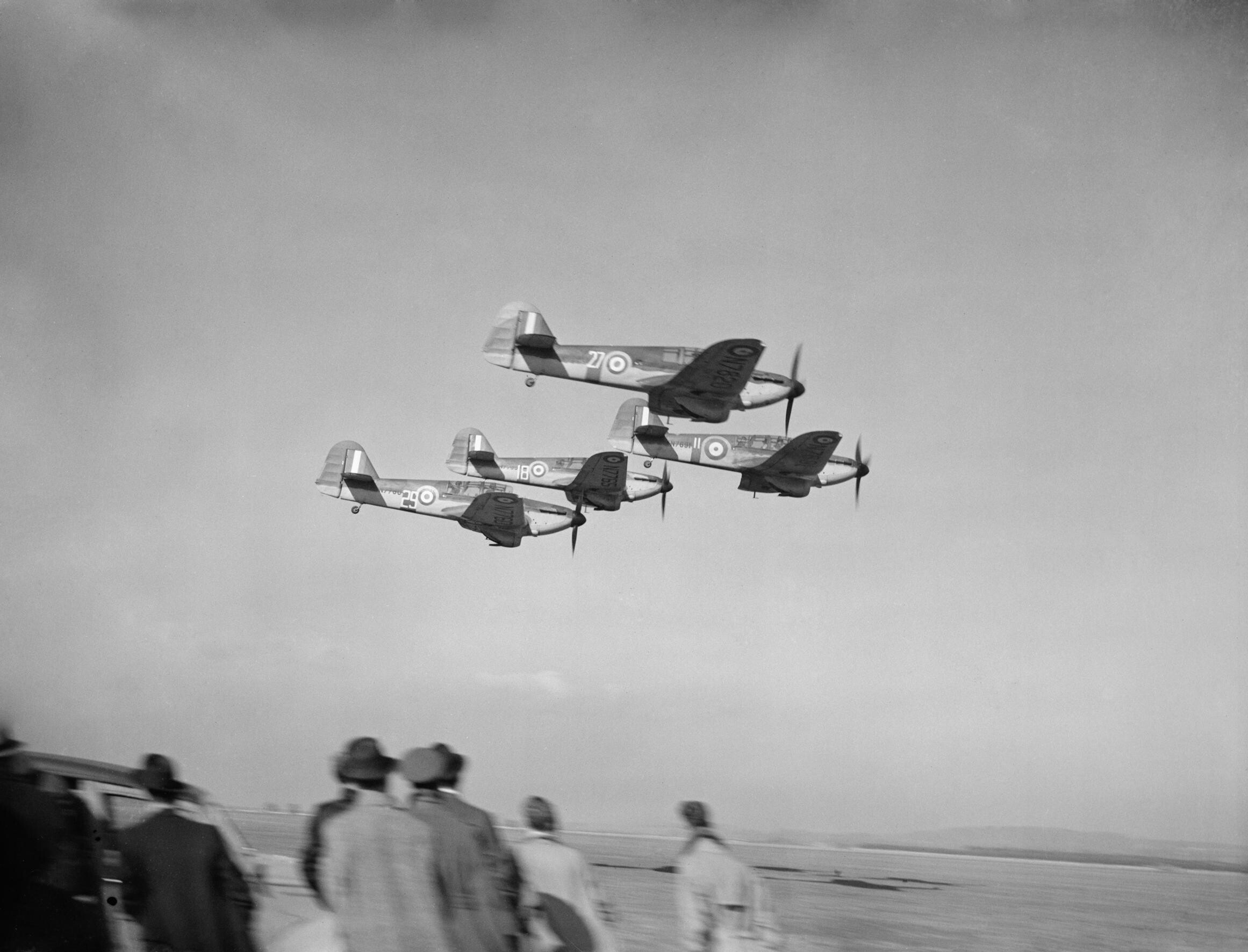 Royal Air Force Flying Training Command, 1940-1945. A formation of Miles Master Mark Is of No. 5 Service Flying Training School, flown by volunteers for No. 71 (Eagle) Squadron RAF, flys past a press audience at Sealand, Flintshire.